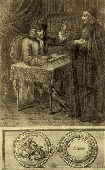 Voltaire and religion